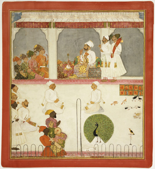 The Six Sons of Maharaja Ajit Singh of Jodhpur on a Visit Made in Jodhpur, Mewar, Rajasthan, India 1720 Artist/maker unknown, India Opaque watercolor and gold on paper 15 3/8 x 14 inches (39.1 x 35.6 cm) Currently not on view 2004-149-47 Alvin O. Bellak Collection, 2004 Label Four young men and two toddlers sit on a terrace with an older man. They are the six sons of Maharaja Ajit Singh, ruler of Jodhpur (reigned 1707–24). The older man is probably the maharaja himself, who was murdered by his two eldest sons when they seized the throne of Marwar only a few years after this painting was made. In the garden in front of the terrace, a male peacock spreads its tail to dance for a white peahen and male pigeons puff and bob to impress the females. In the symbolic language often used by Rajput artists, these mating birds may indicate that an engagement or marriage is being celebrated.